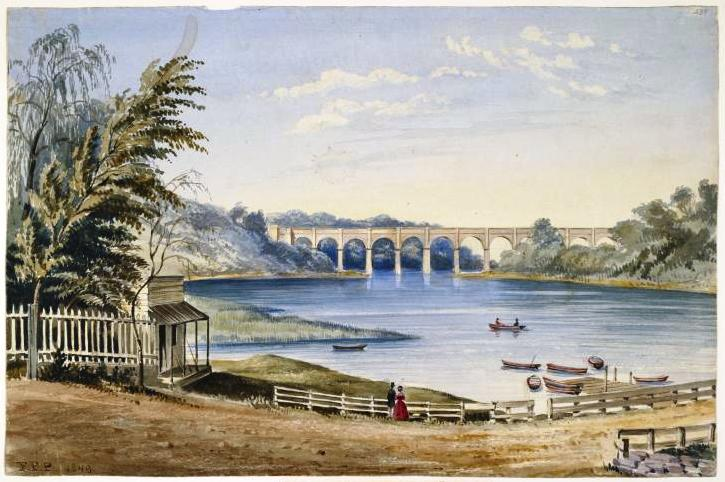 A watercolor painting of the High Bridge shortly after its construction.